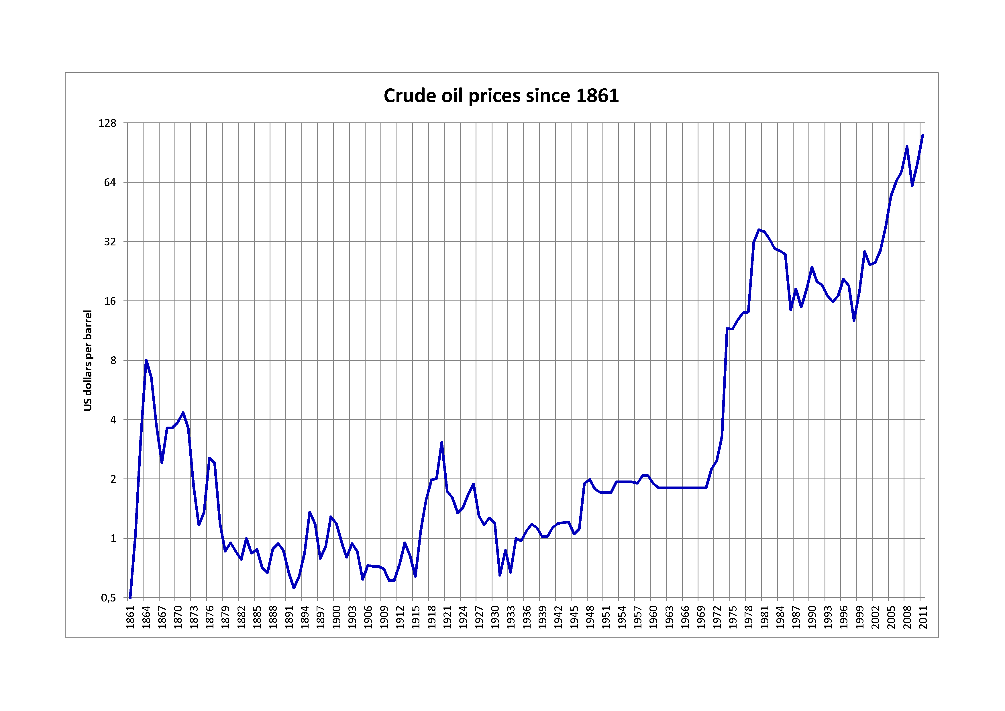 Crude oil prices from 1861 to 2011 (1861-1944 WTI, 1945-1983 Arabian Light, 1984-2011 Brent) (yearly average in US dollars per barrel) (logarithmic graph)